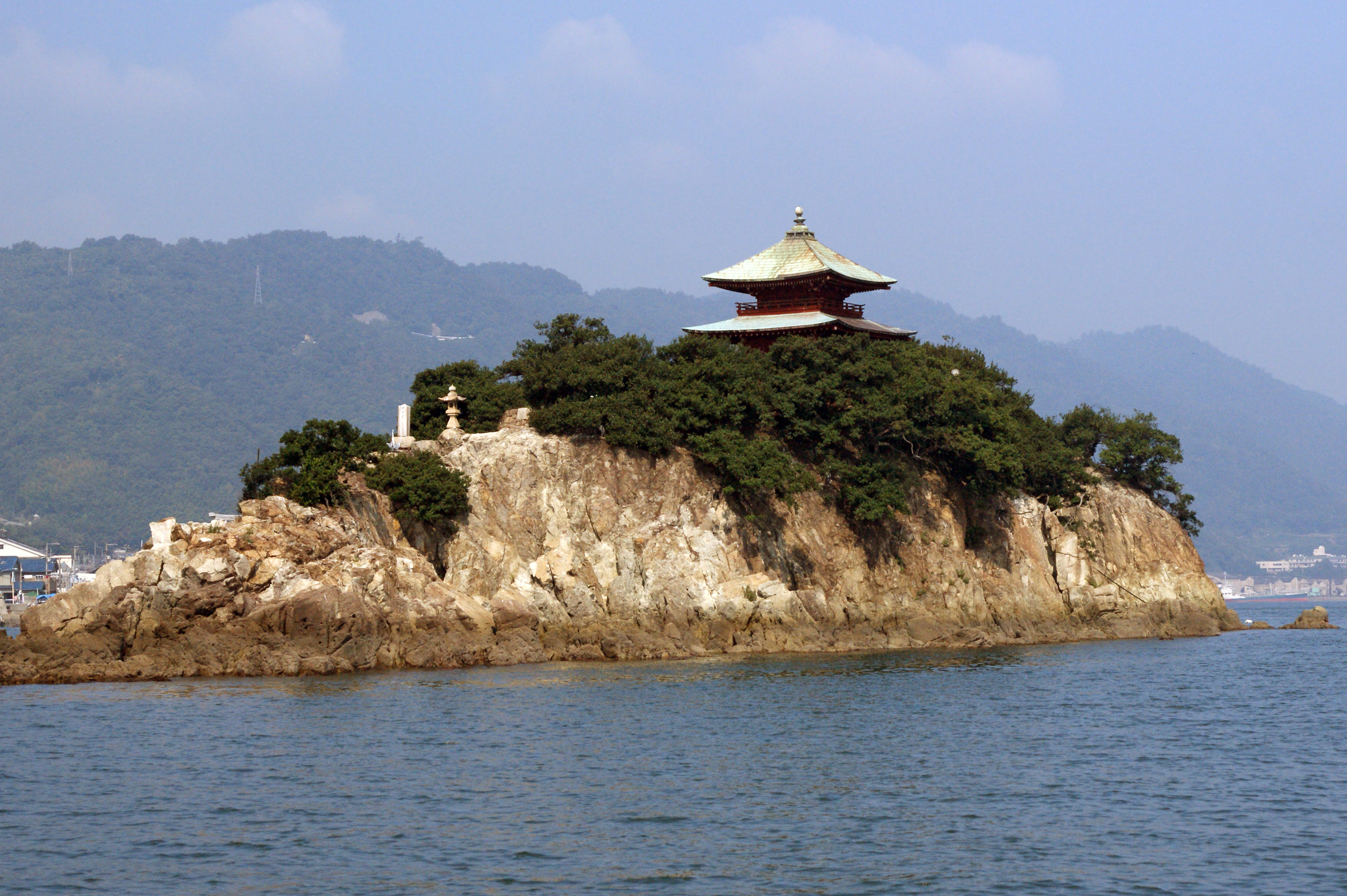 Benten Island, Fukuyama, Hiroshima Prefecture, Japan